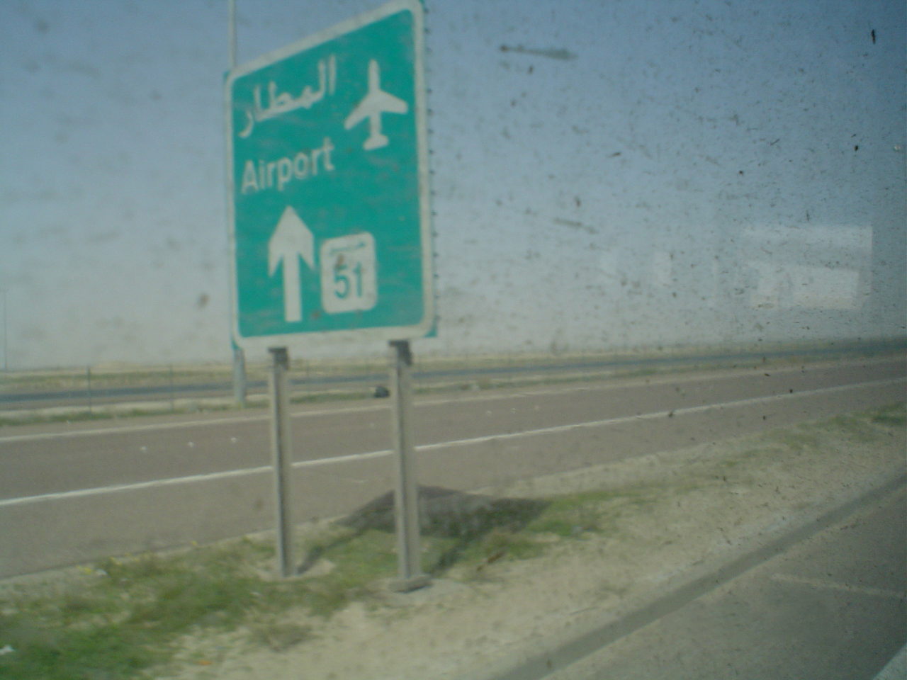 A road sign in Kuwait pointing to the Kuwait International Airport.